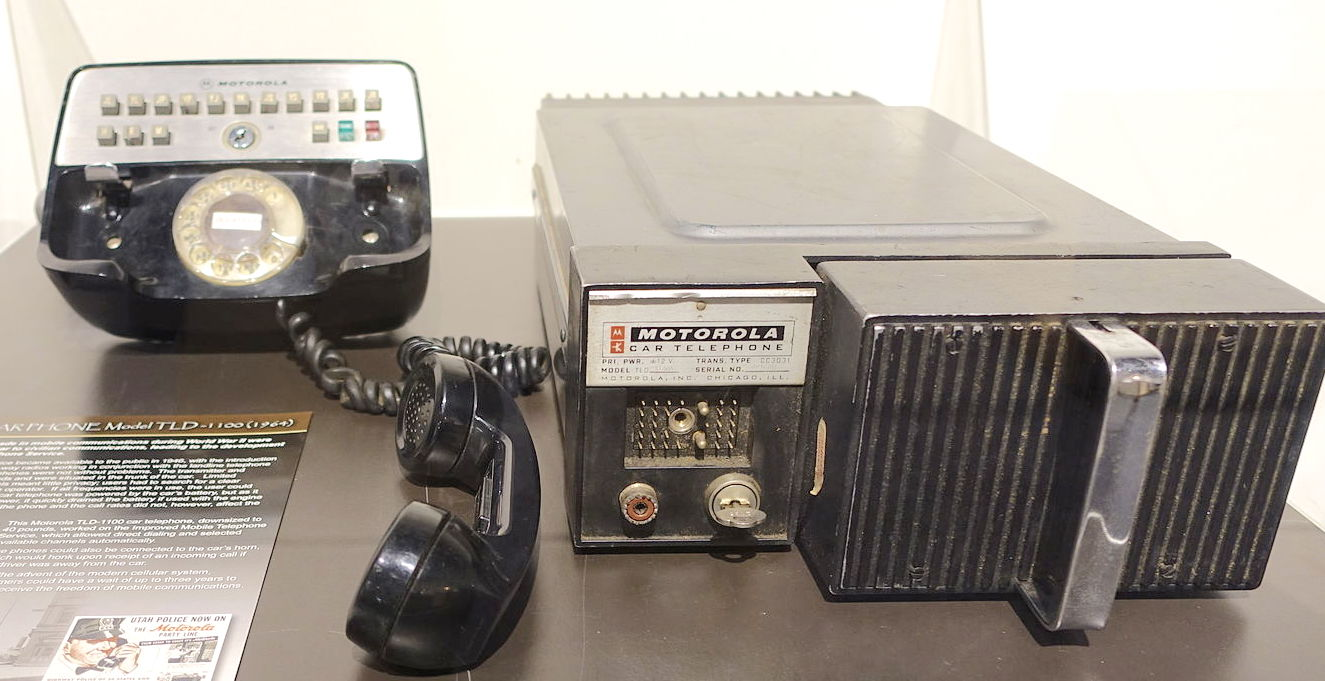 Exhibit in the National Electronics Museum, 1745 West Nursery Road, Linthicum, Maryland, USA. All items in this museum are unclassified. The museum permitted photography without restriction.